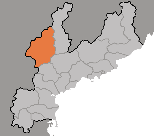 Map of Changjin, Hamgyong-namdo, DPRK, 2006